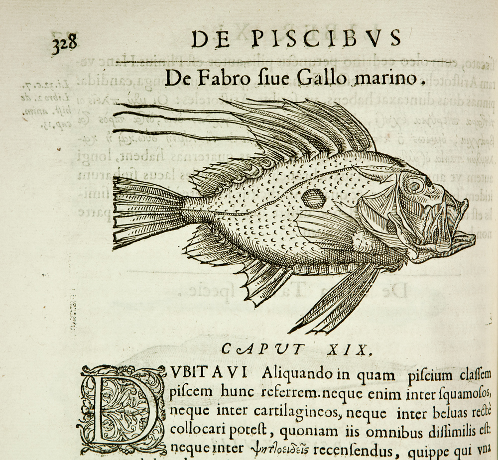 Extract from Libri de piscibus marinis in quibus verae piscium effigies expressae sunt